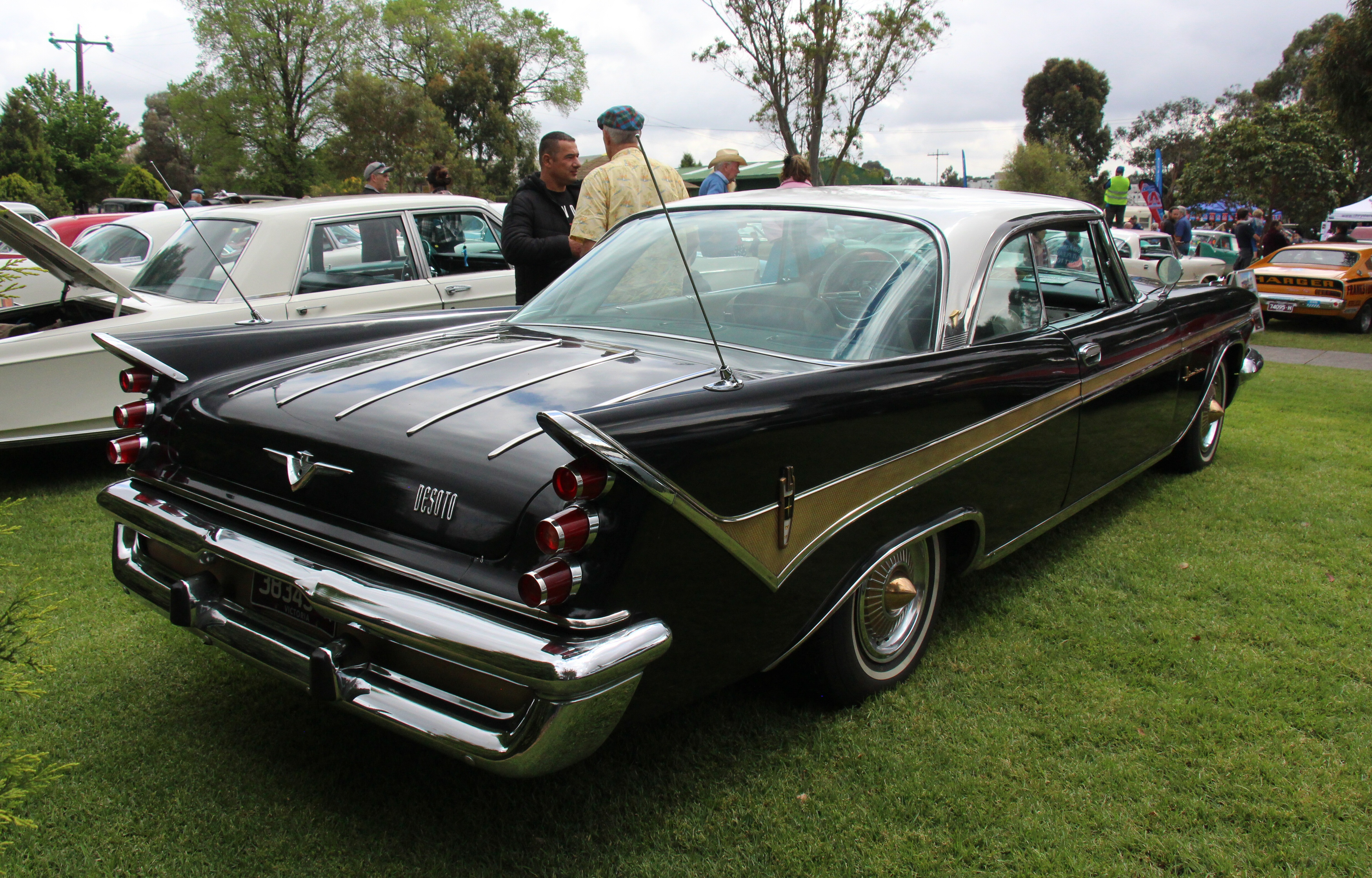 The Chrysler Corporation, founded in 1925, expanded in 1928, establishing Plymouth and DeSoto brands, they also acquired Fargo Trucks and Dodge Brothers Motors and started selling vehicles under those names. Desotos got the new forward look for 1957, looking even bigger, it got tall tail fins as well. Models available were; The 122 inch wheelbase Firesweep was available in 2 and 4 door Sportsman Hardtop or 4 door Sedan and Wagon. The 1959 facelift saw a new look front clip The longer 126inch wheelbase cars available were; The base Firedome, available in; 2 and 4 door Sportsman Hardtops, Convertible, and 4 door Sedan. The upmarket Fireflite was available in 2 or 4 door Sportsman Hardtop, Convertible and 4 door Sedan or Wagon. The performance Adventurer in 2 door Hardtop or Convertible was introduced in 1956, it had a hi-output V8, dual exhausts and custom appointments and trim. The 4 door Firesweep Sedan, along with Dodge Custom Royal and Plymouth Belvedere were also assembled in Australia in 1958 and 59, sent there from the US in complete knocked down form. It was replaced there in 1960 by the Dodge Phoenix. Engine; 350hp 383 cu in V8